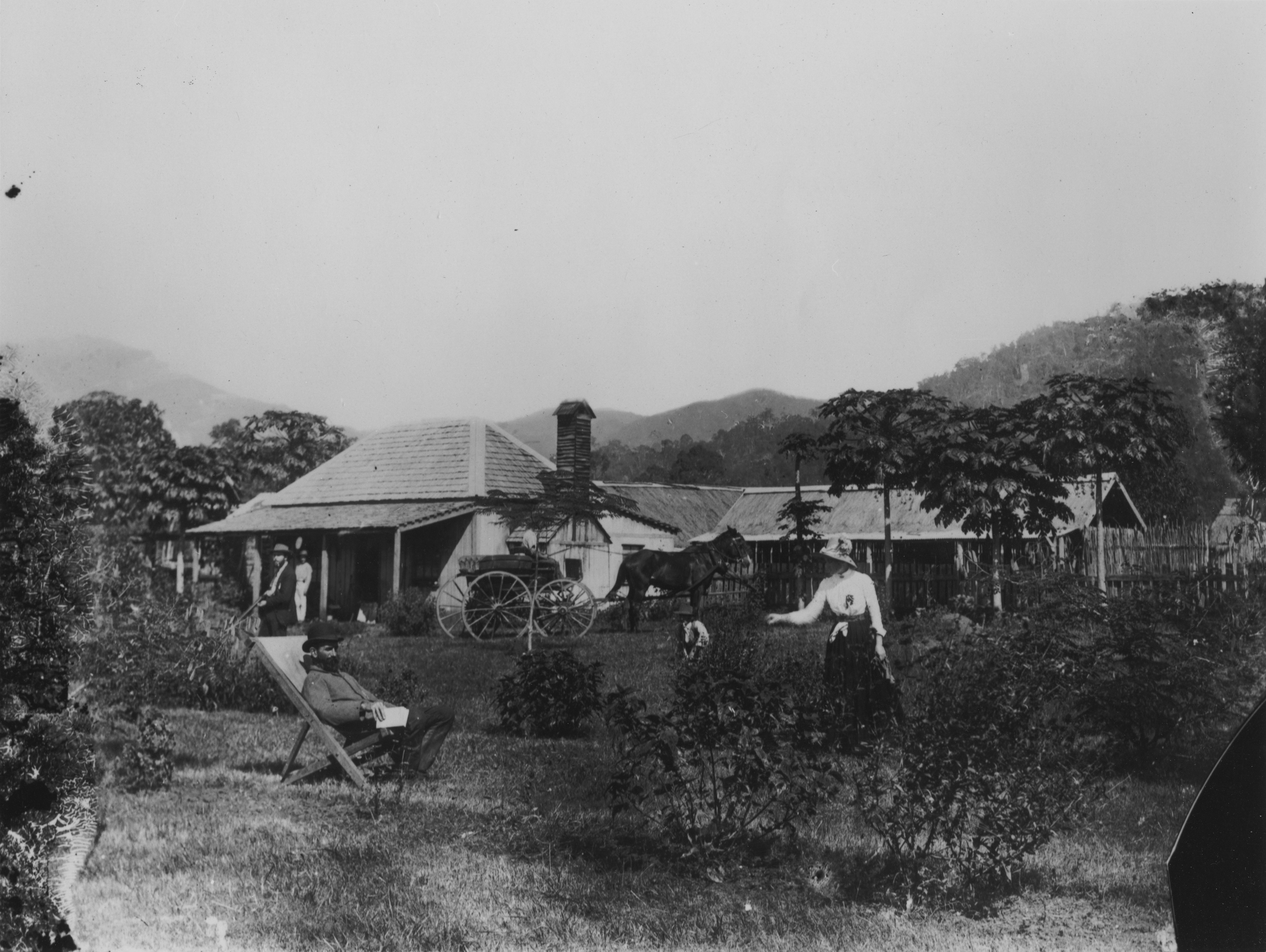 Glen Boughton dairy farm in the Cairns district circa 1890. The man in the deck chair may be John Hill, who, with Mr Clayton, established the farm.